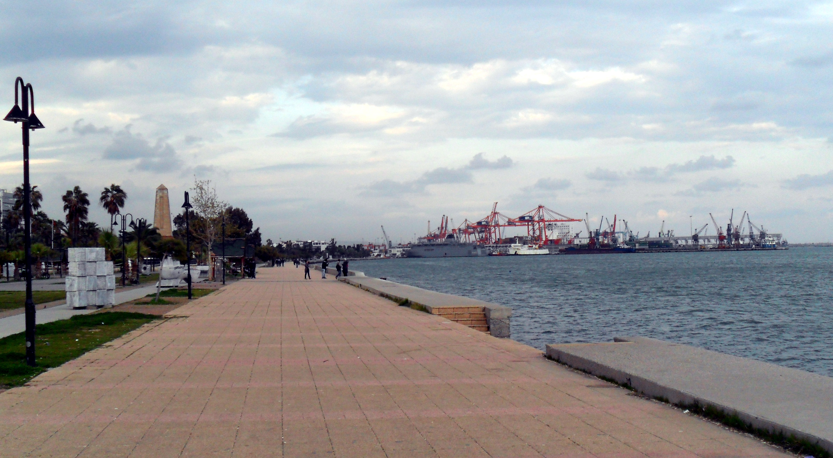 Pedestrian road in Atatürk park, Mersin